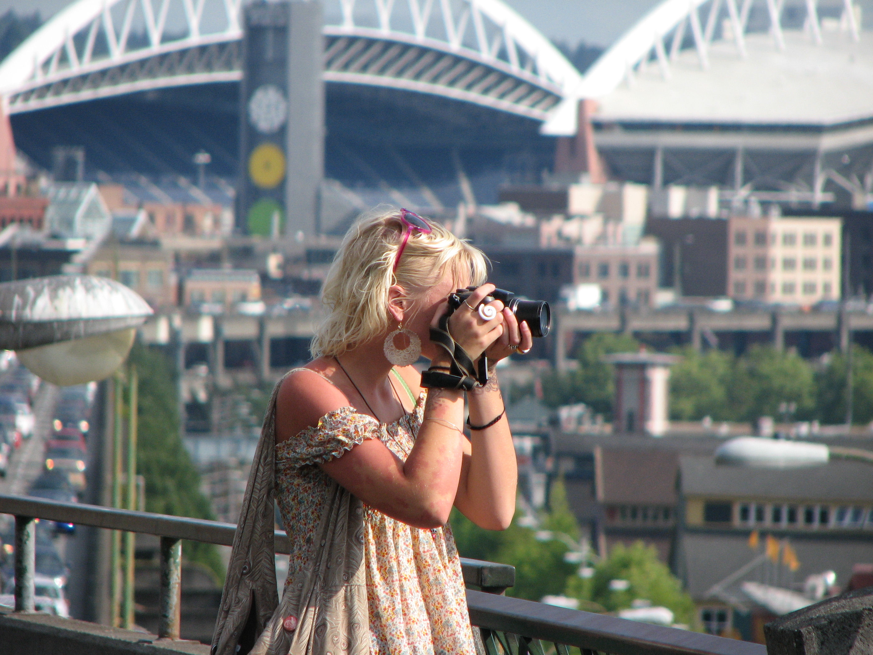 An example of a large depth of field, as a woman takes a photograph of the Seattle waterfront and Elliott Bay. Beyond her is the SODO neighborhood, the waterfront neighborhood, and Qwest Field.